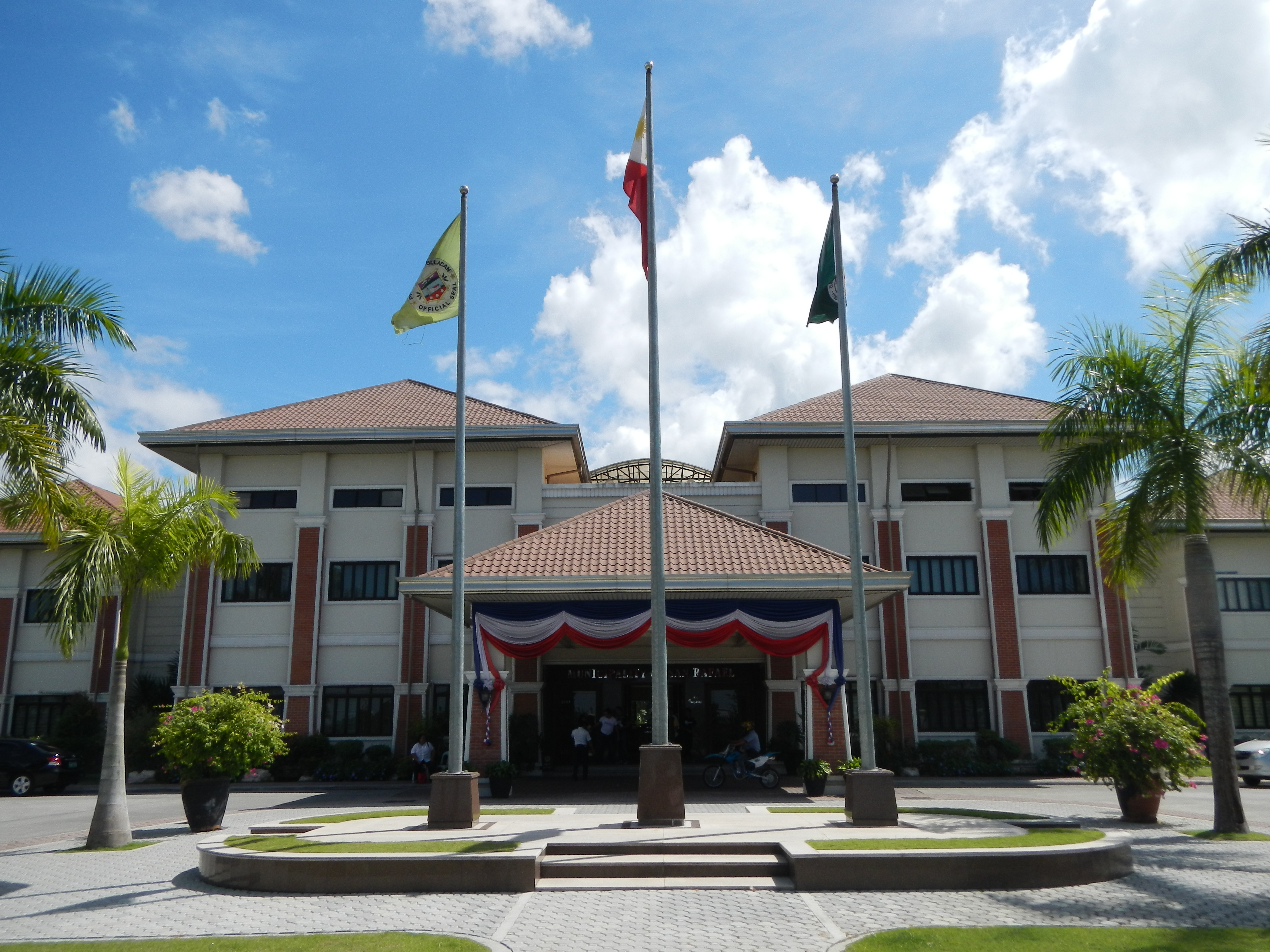 [1]San Rafael, Bulacan - 2010 New Municipal Building, inaugurated by President Gloria Macapagal Arroyo, Sampaloc Government Center